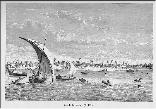 Bagamoyo drawn by Alexandre Le Roy. Publiched in the book "A travers le Zanguebar : voyage dans l'Oudoé, l'Ouzigoua, l'Oukwèré, l'Oukami et l'Ousagara" 1899.